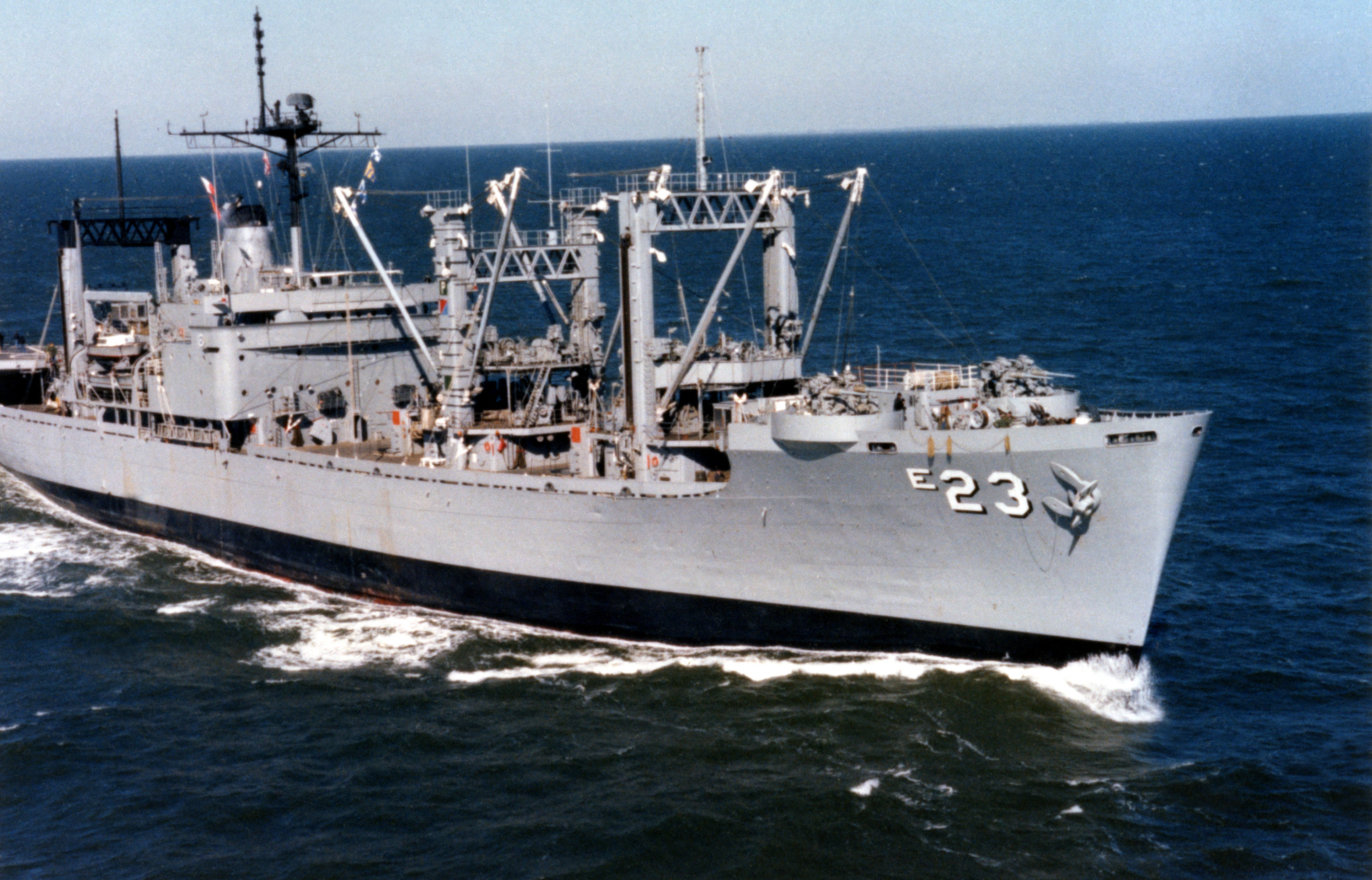 The U.S. Navy the ammunition ship USS Nitro (AE-23) underway.